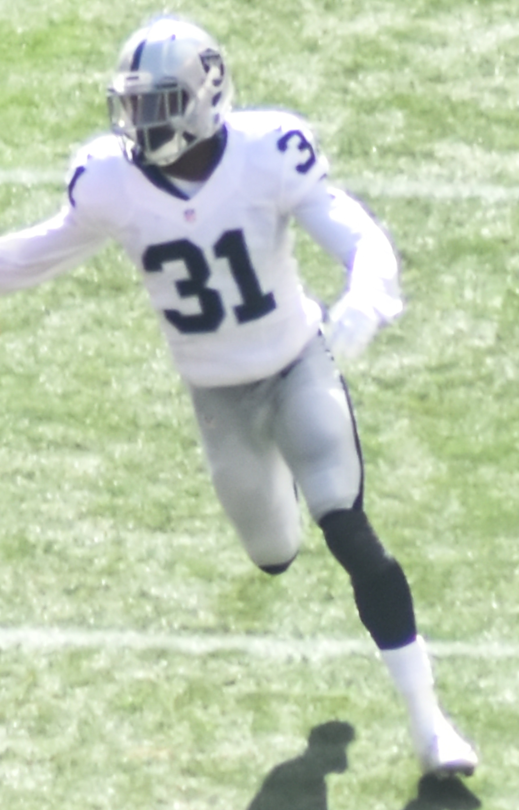 Raiders at Browns